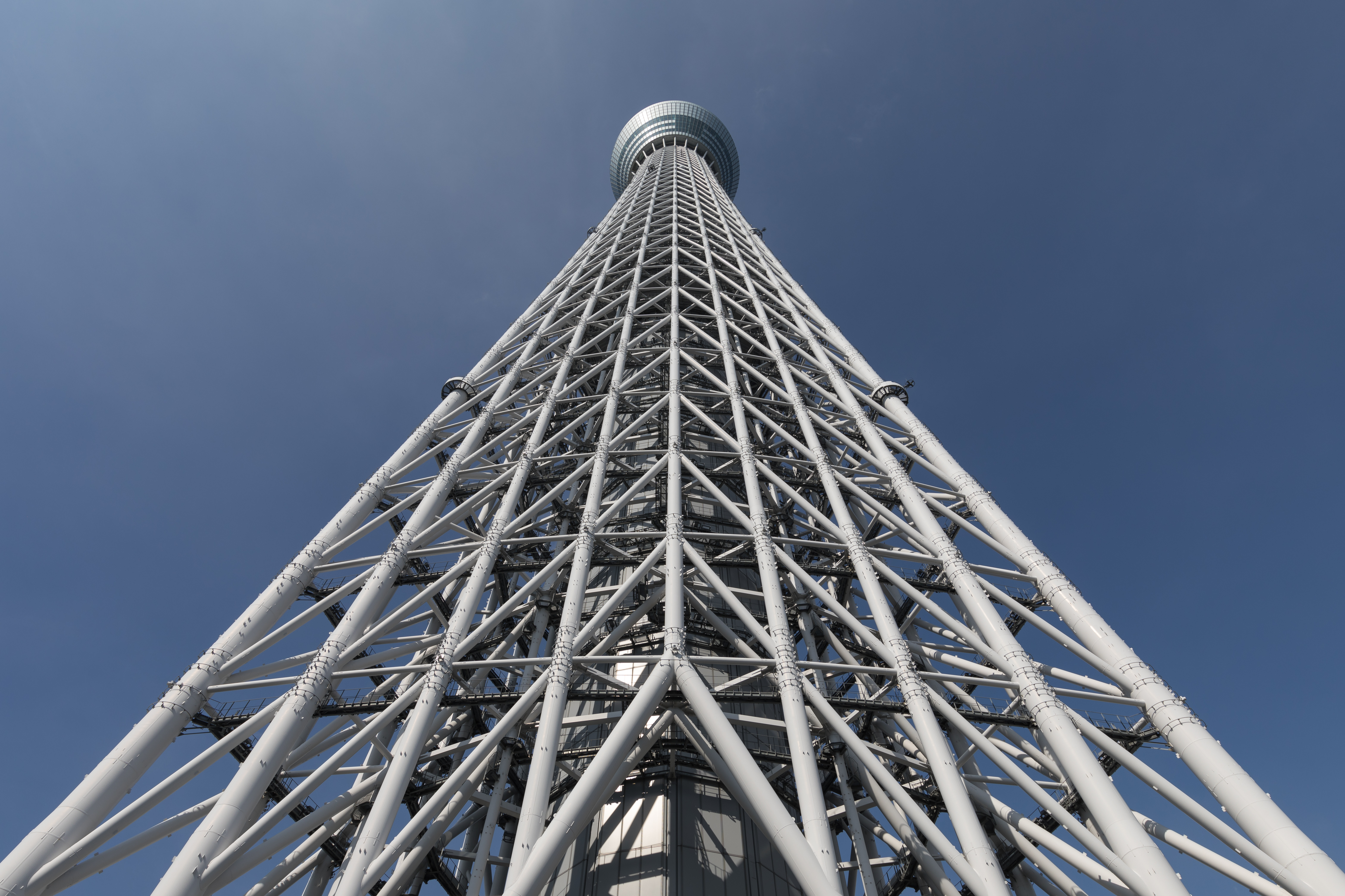 Worm's-eye view of Tokyo Skytree, with vertical symmetry impression. A sunny day, at 8 o'clock, in Japan.